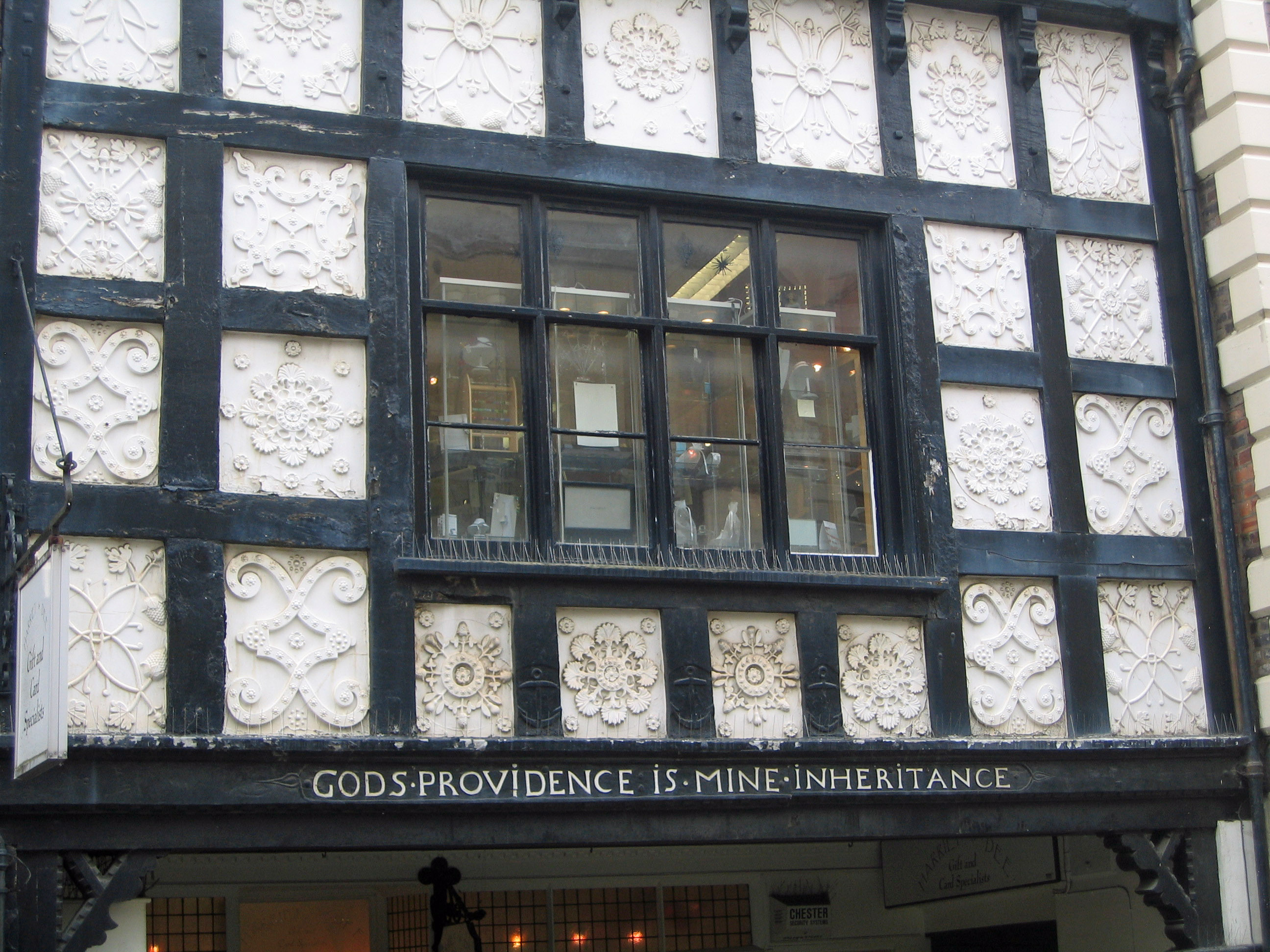 Photograph of God's Providence House, Watergate Street, Chester, Cheshire, England to show the inscription